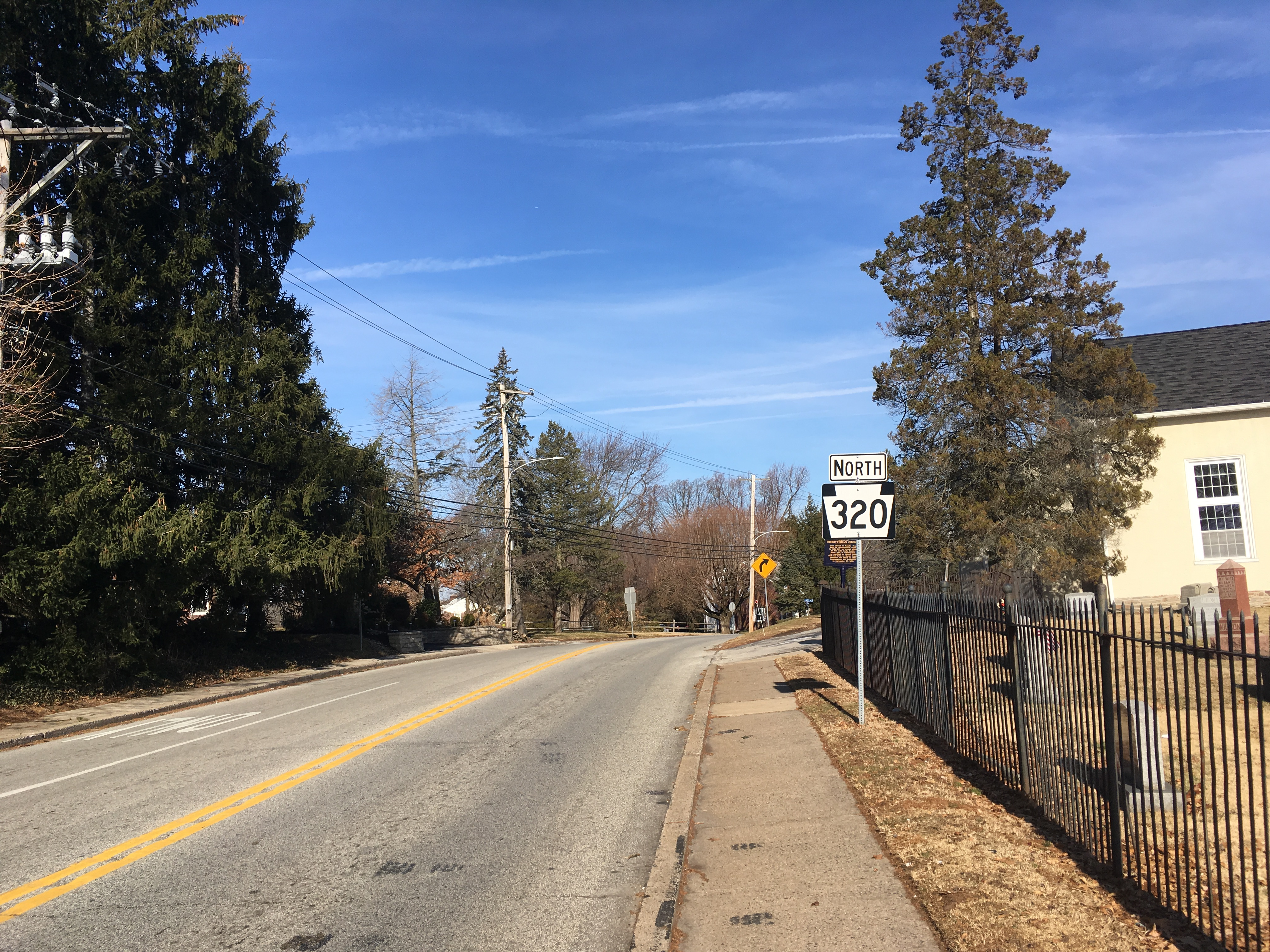 Northbound Pennsylvania Route 320 (Sproul Road) past the intersection with Church Lane/Marple Road in Broomall, Pennsylvania